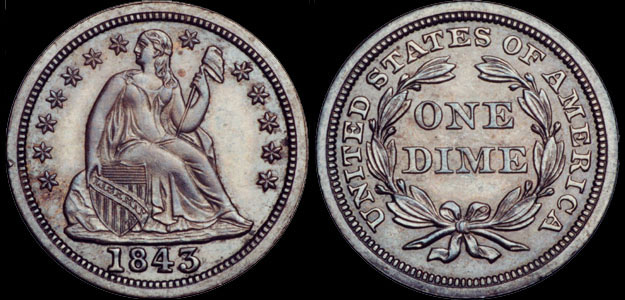 1843 Seated Liberty dime. Original images obtained from and combined using Photoshop.